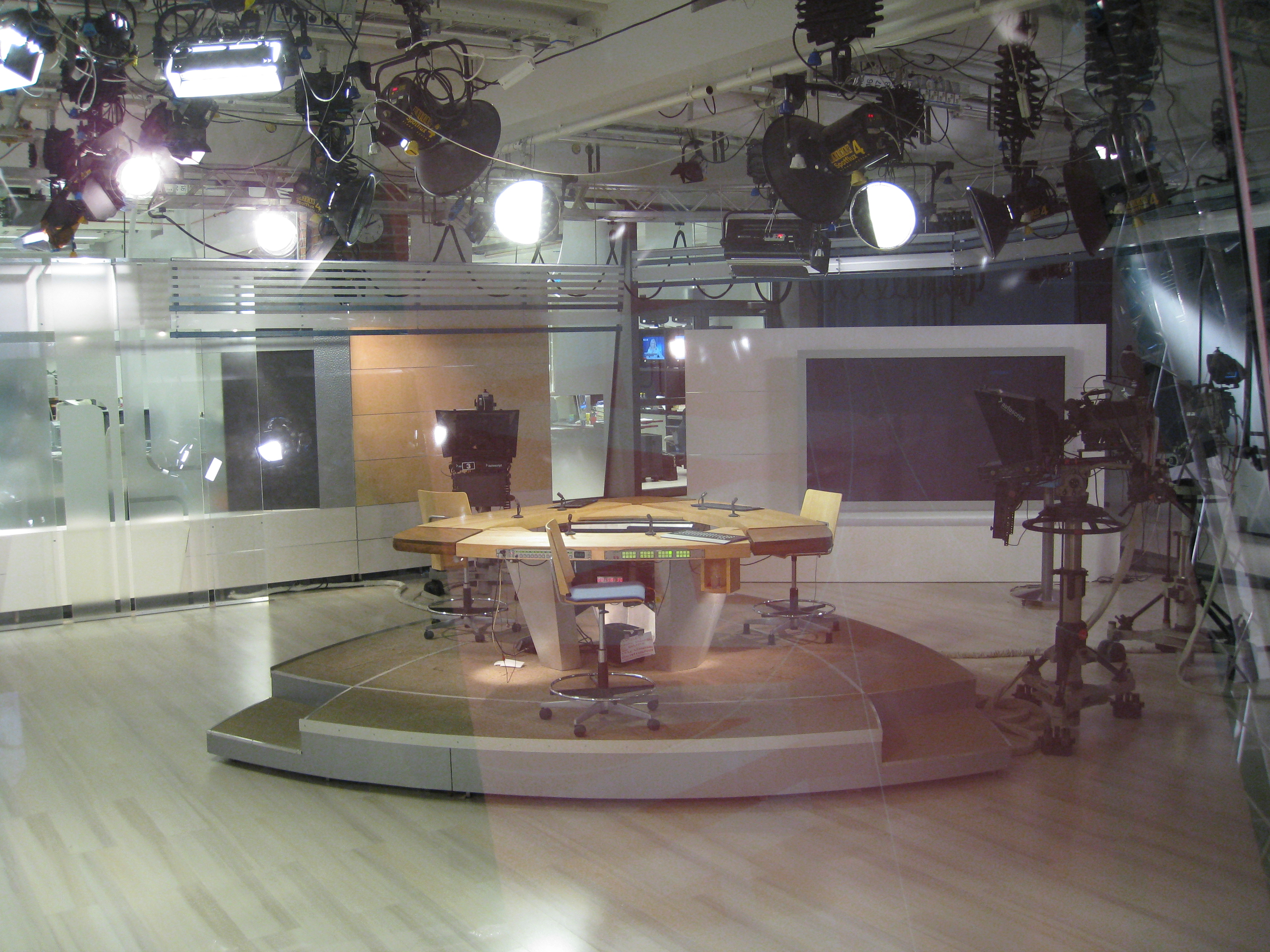 Behind the glass wall (where guests were not allowed to enter) is the news studio of Finnish Broadcasting company.